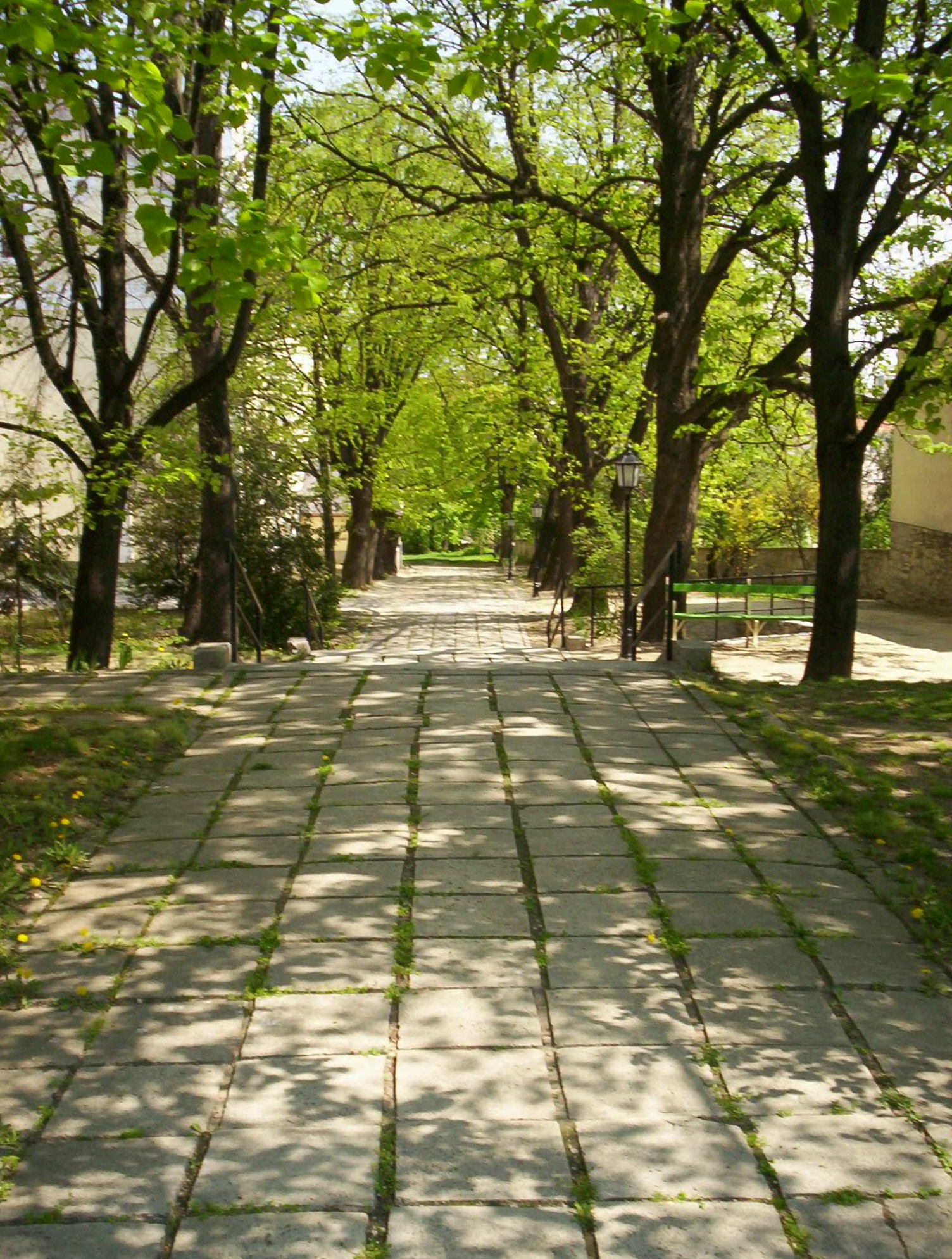 Bátorkeszi István Park, Veszprém